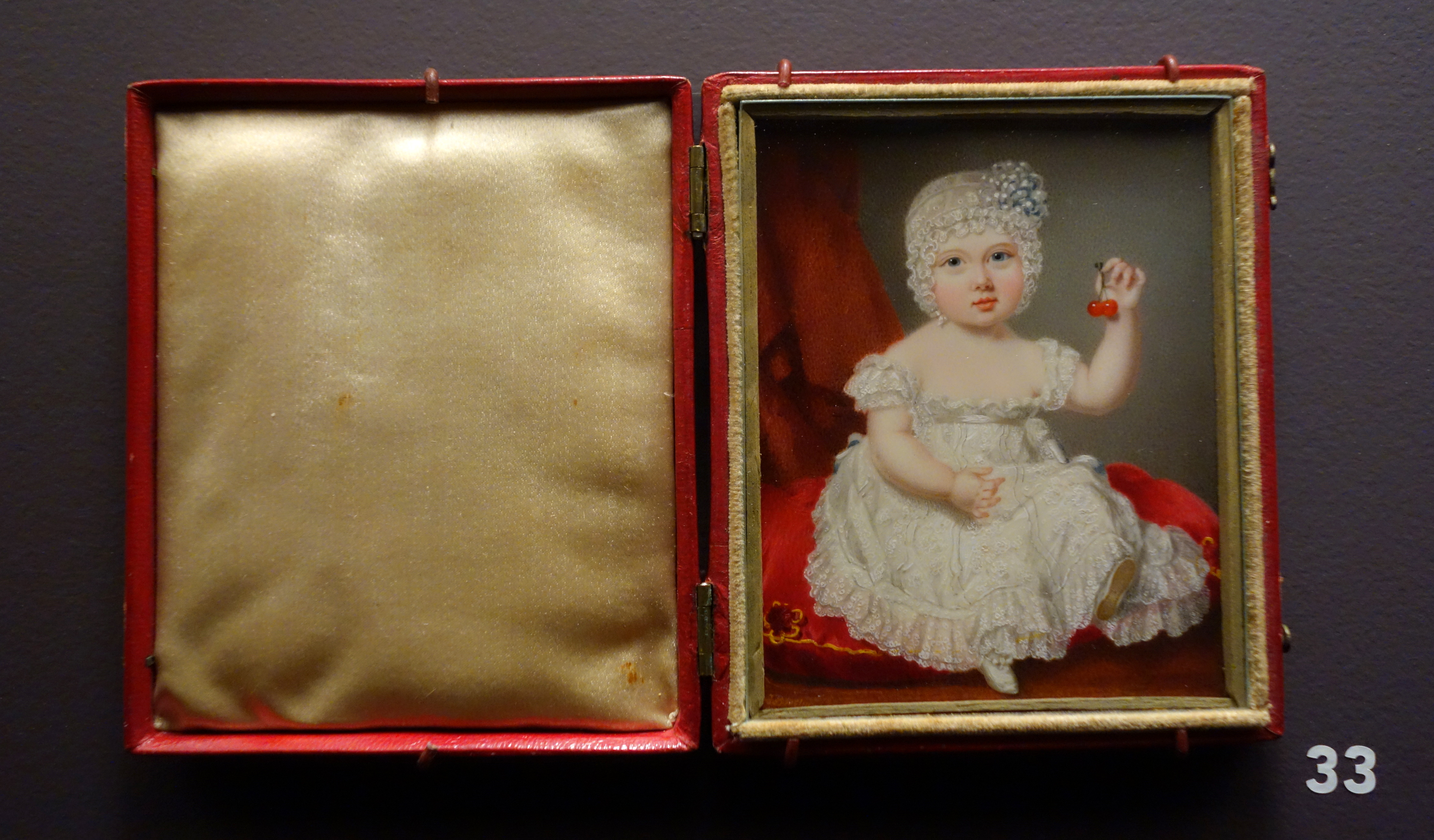 Exhibit in the Cincinnati Art Museum, Cincinnati, Ohio, USA. This artwork is in the public domain because the artist died more than 70 years ago.